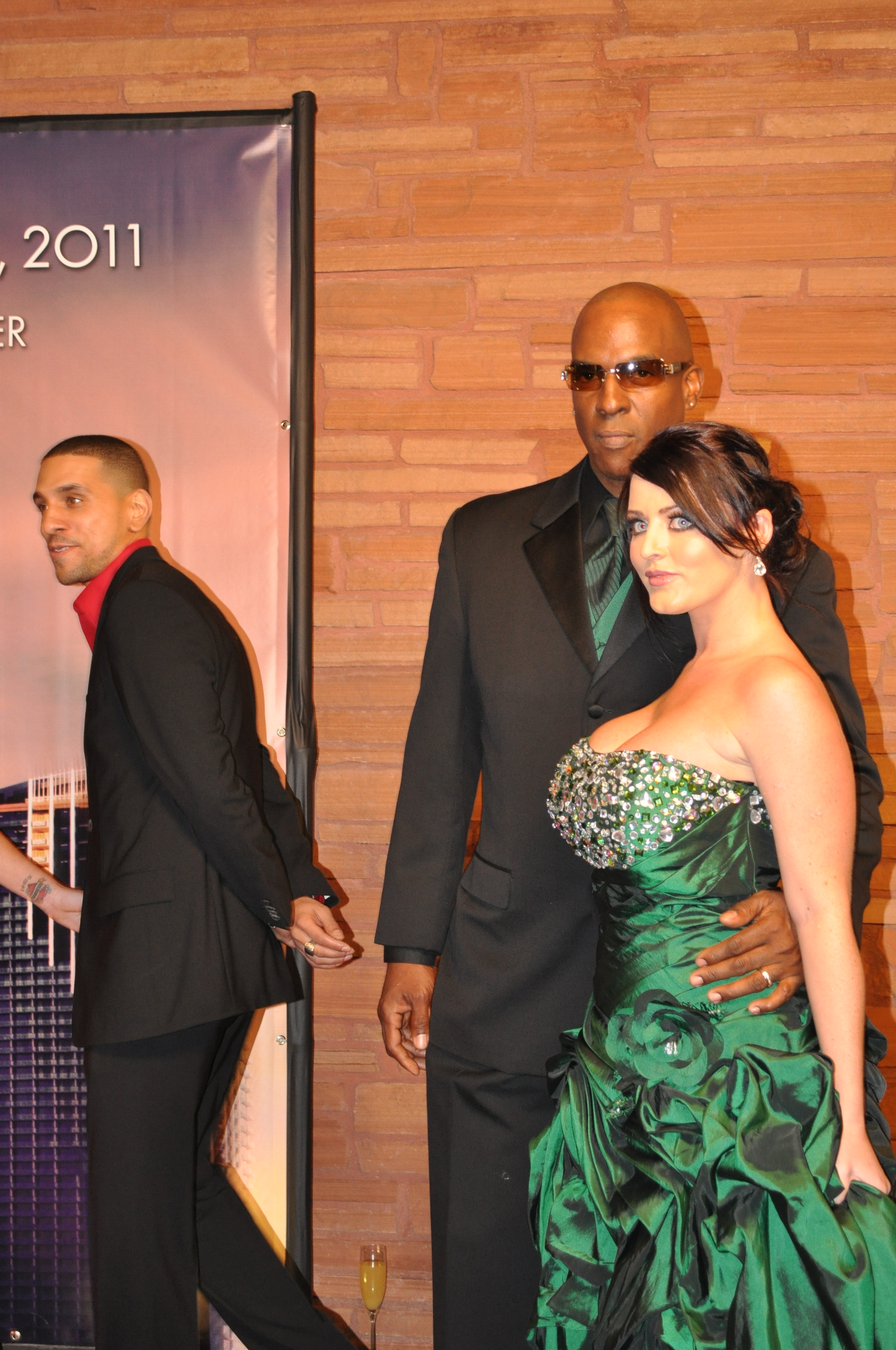 Sophie Dee and Lee Bang at AVN Awards 2011